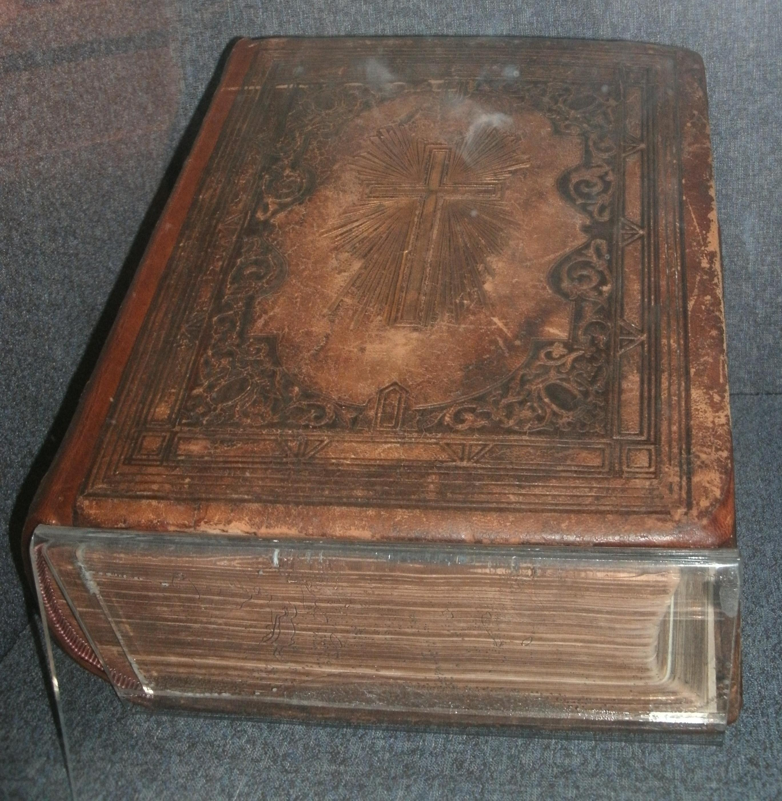 Photograph taken at the Kennedy Memorial Museum in Boston